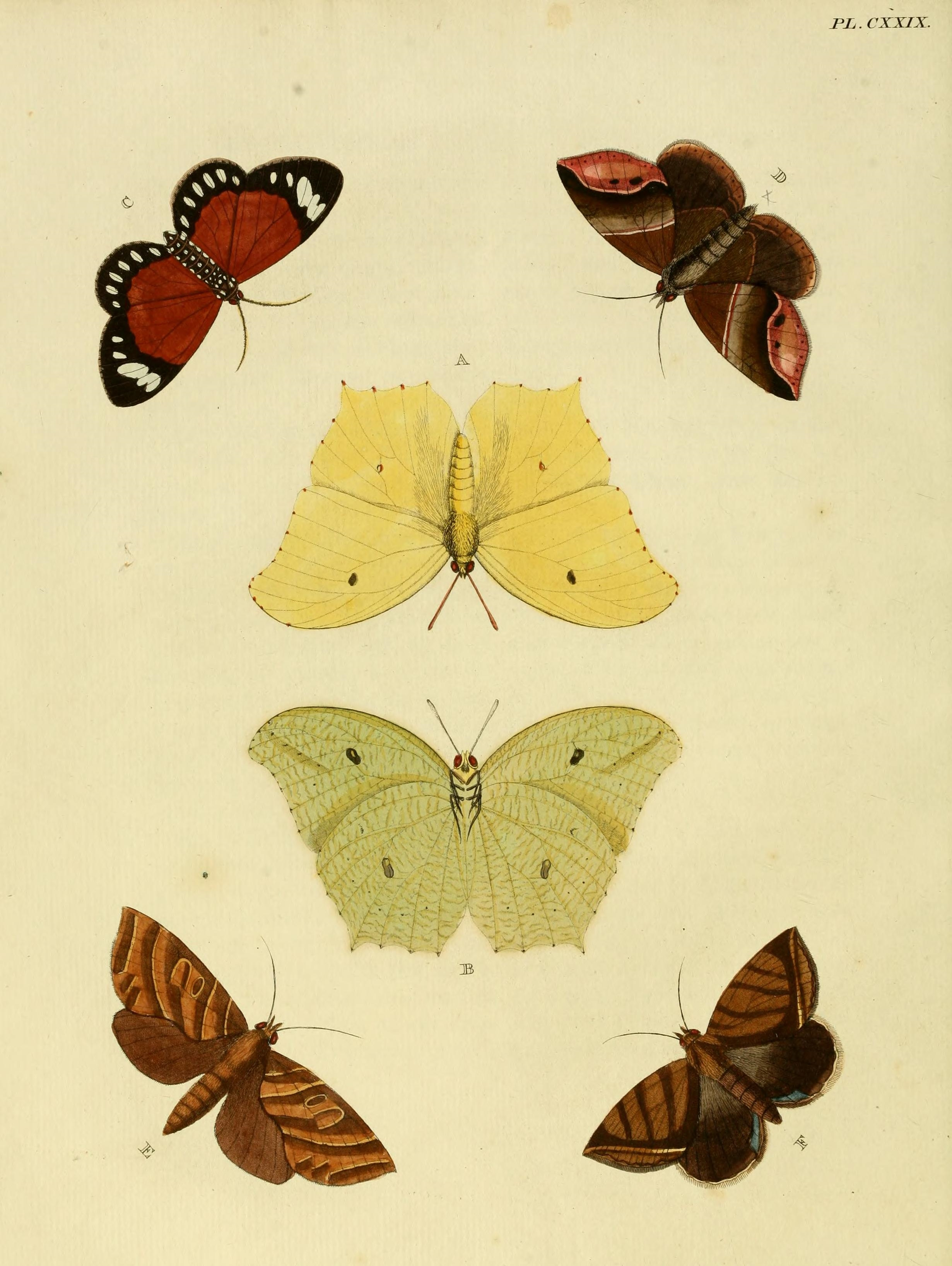 Plate CXXIX A, B: "(Papilio) Ecclipsis" ( = Anteos maerula), see: Chainey J. E. 2005.*, page 321: " The name Papilio ecclipsis Linnaeus, 1763, was described on the basis of a specimen of Gonepteryx rhamni hand-painted with eyespots, supposedly from ‘America Septentrionali’. Cramer evidently did not realize this, and was perhaps led astray by the type locality." * Zoological Journal of the Linnean Society, 2005, 145, 283–337 C: "(Phalaena) Helcita" ( = probably Aletis helcita), see The Global Lepidoptera Names Index, NHM. Photos at Barcode of Life D: "(Phalaena) Macaria" ( = Parachaea macaria, iconotype?), see Butterflies and Moths of the World , NHM. Photo at Hétérocères de Guyane Française E: "(Phalaena) Juturna" ( = Antaea juturna, iconotype?), see The Global Lepidoptera Names Index, NHM. Photo at Hétérocères de Guyane Française F: "(Phalaena) Orodes" ( = Parallelia orodes, iconotype?), see The Global Lepidoptera Names Index, NHM